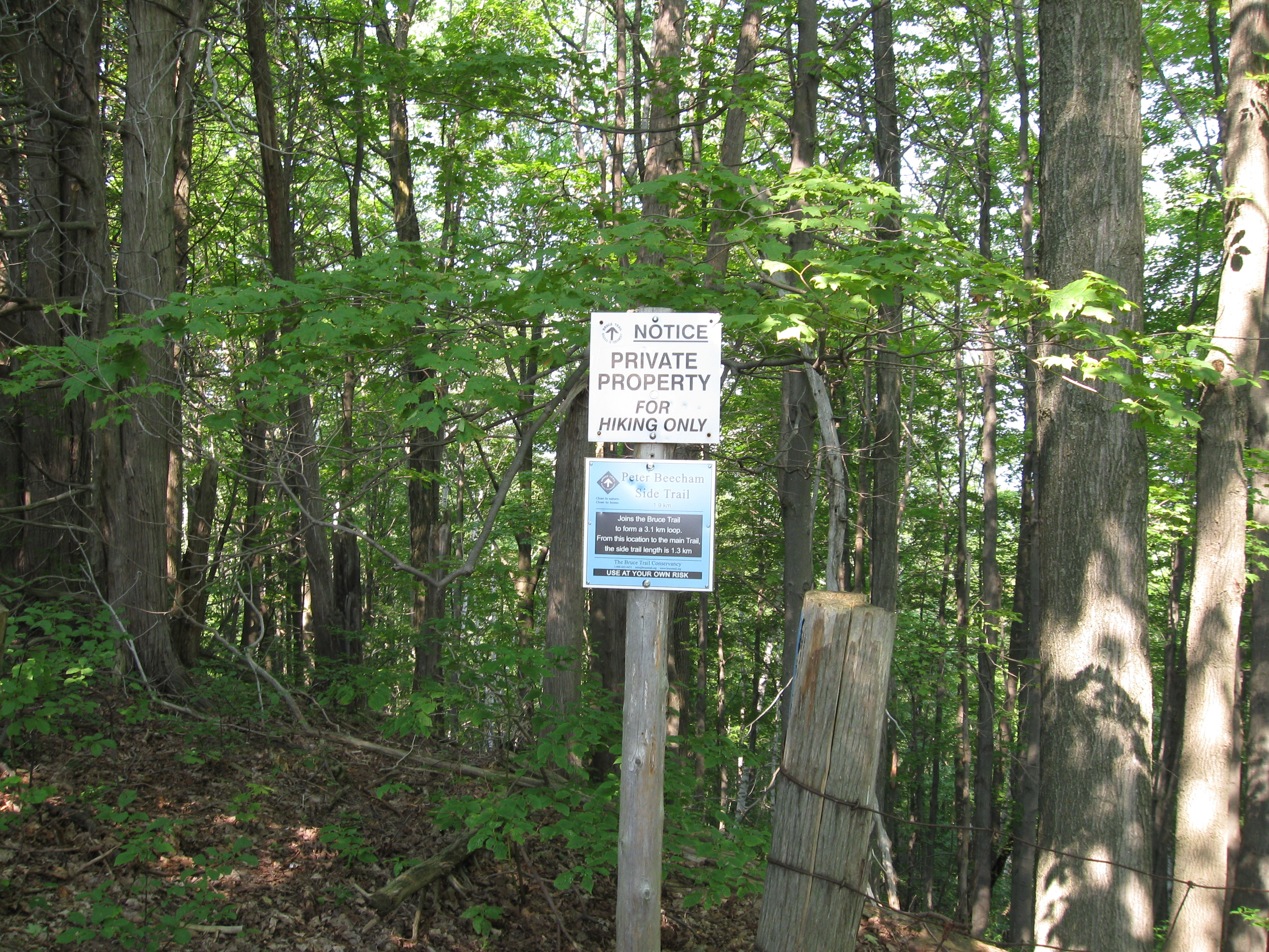 The entrance to the Peter Beecham side trail from 4th Line in Mono, Ontario which later joins with the Bruce Trail.